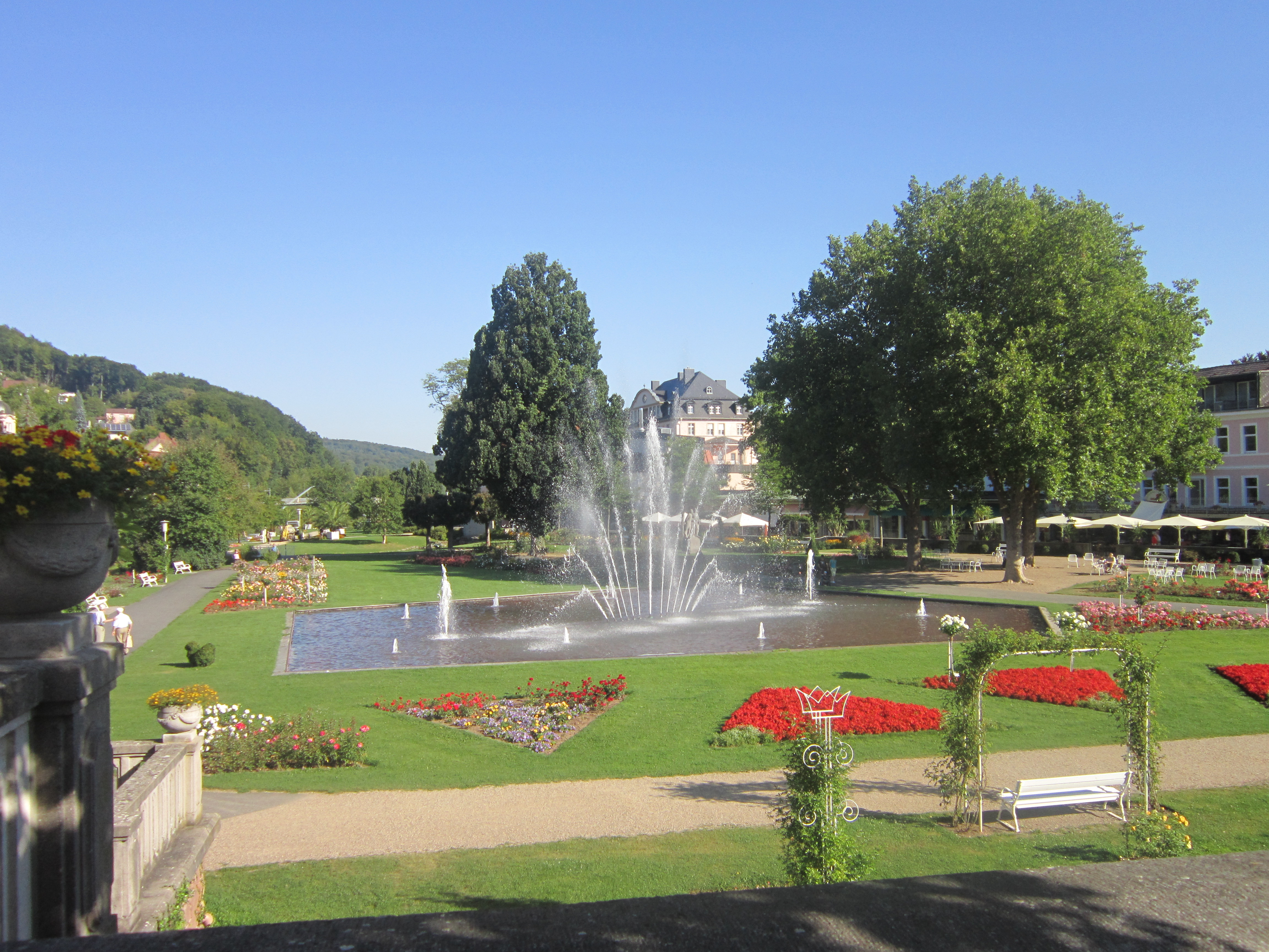 Vioew on the park "Rosengarten" in the German spa town of Bad Kissingen in Lower Franconia (Bavaria).